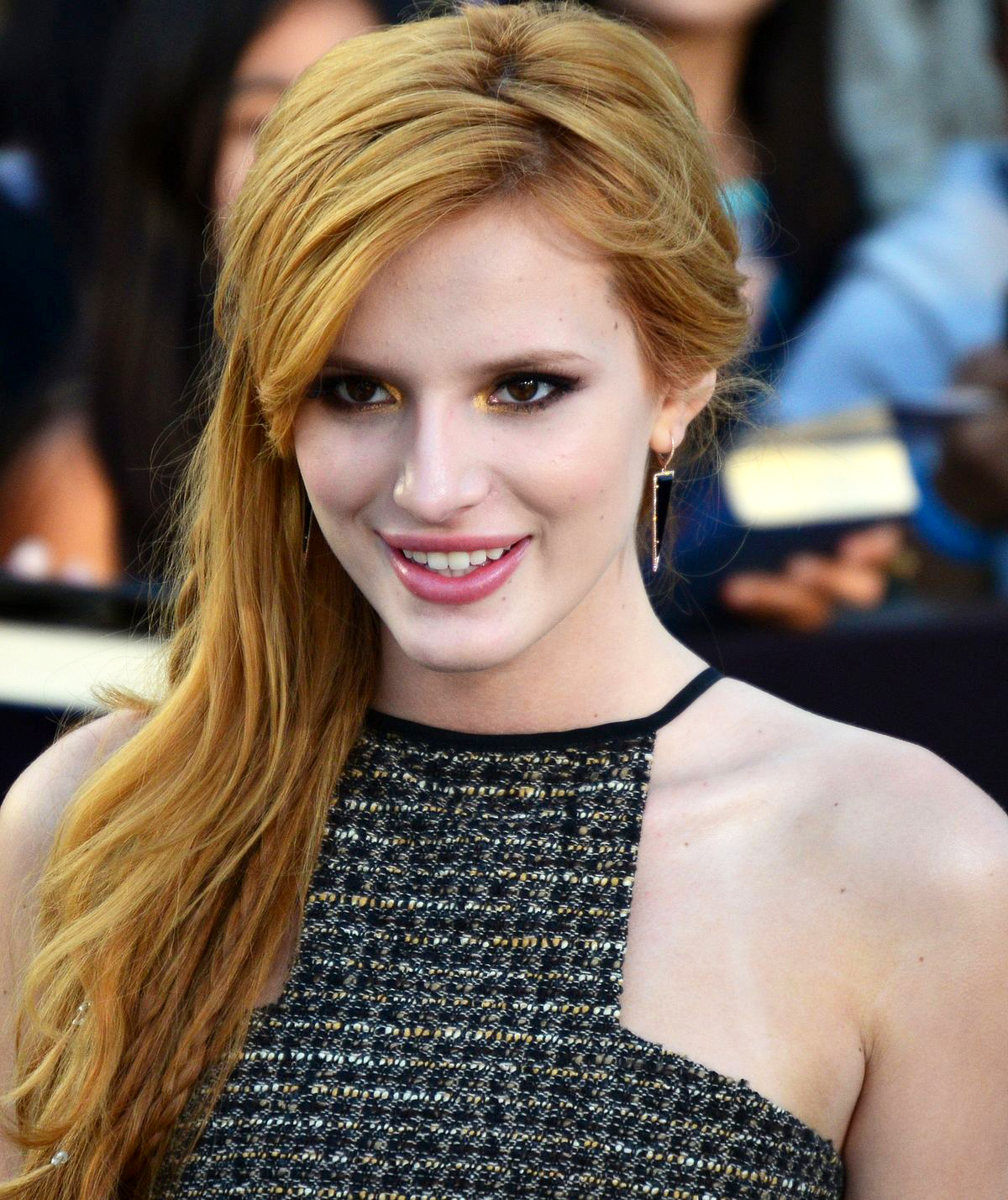 Actress Bella Thorne at the "Divergent" film premiere in Westwood, CA on March 18, 2014